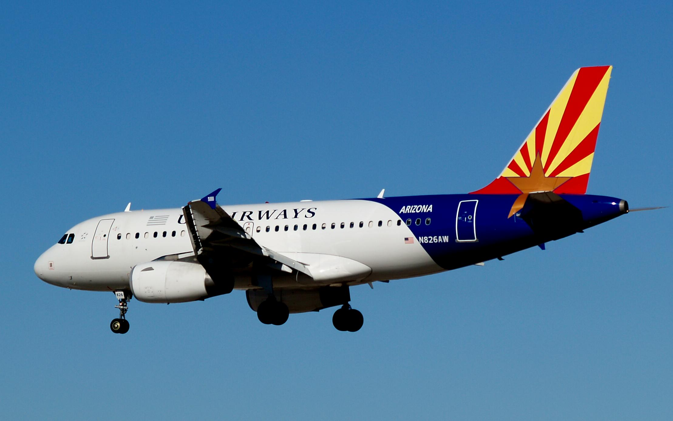 US Airways "Arizona" Airbus A319-132 N826AW